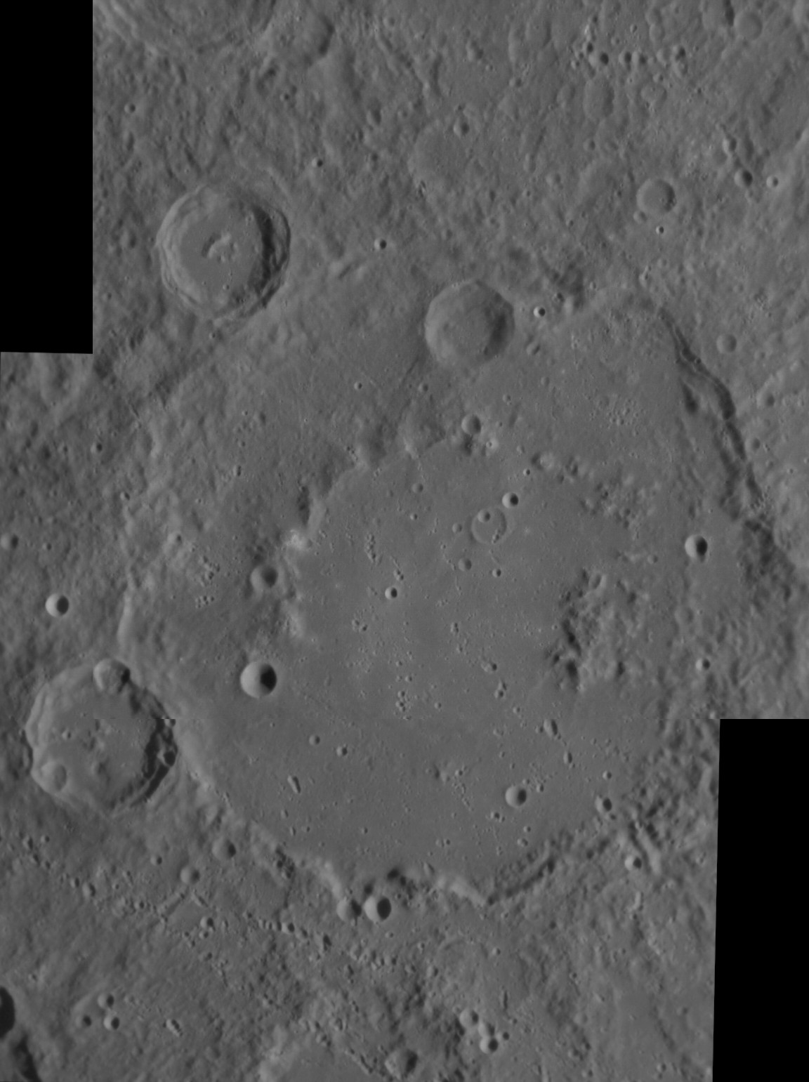 Vālmiki crater on Mercury. Mosaic of MESSENGER Narrow Angle Camera images. Lower image (EN0212149355M) is scaled to match the top (EN0212280054M) image, and was taken on a different day so the lighting is slightly different. North is at top. Image width is about 269 km. Statistics for top image: Emission Angle: 11.8 Incidence Angle: 64.6 Latitude: -22.0 Longitude: 218.4 Phase Angle: 76.4